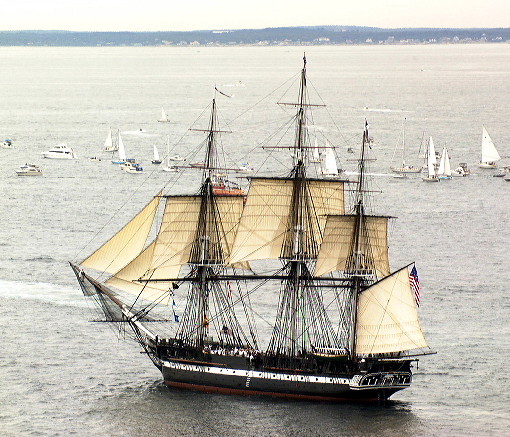 Off the coast of Massachusetts (Jul. 21, 1997) -- The USS Constitution the worlds oldest commissioned war ship underway in Massachusetts Bay, MA. Commissioned on October 21st, 1797, Constitution set sail unassisted for the first time in 116 years. Constitution will celebrates her 200th birthday on October 21st of this year after completing a 40 month overhaul. U.S. Navy Photo by Journalist 2nd Class Todd Stevens. (RELEASED)